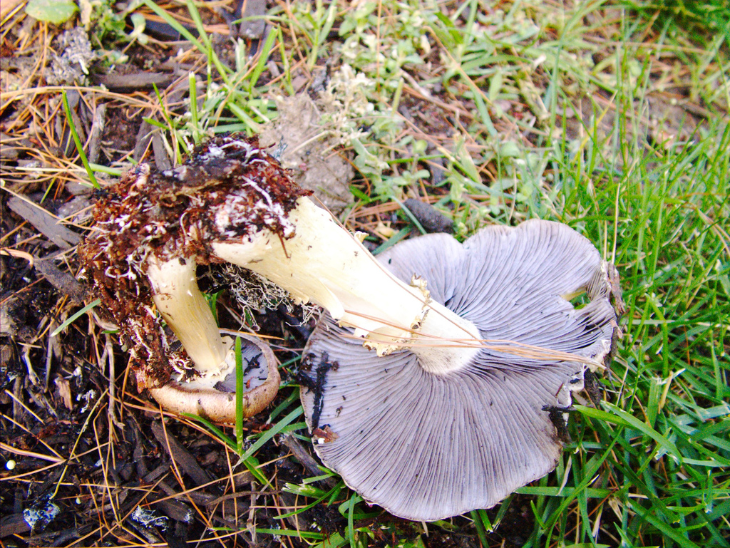 A younger and an older specimens from underside.